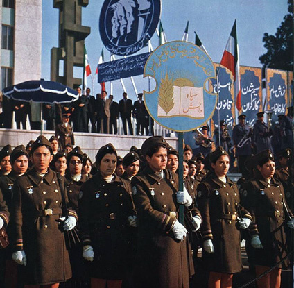 womens literacy corp, Iran, 1965